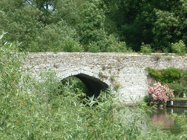 Old Culham Bridge. Right on the left edge of the grid square.